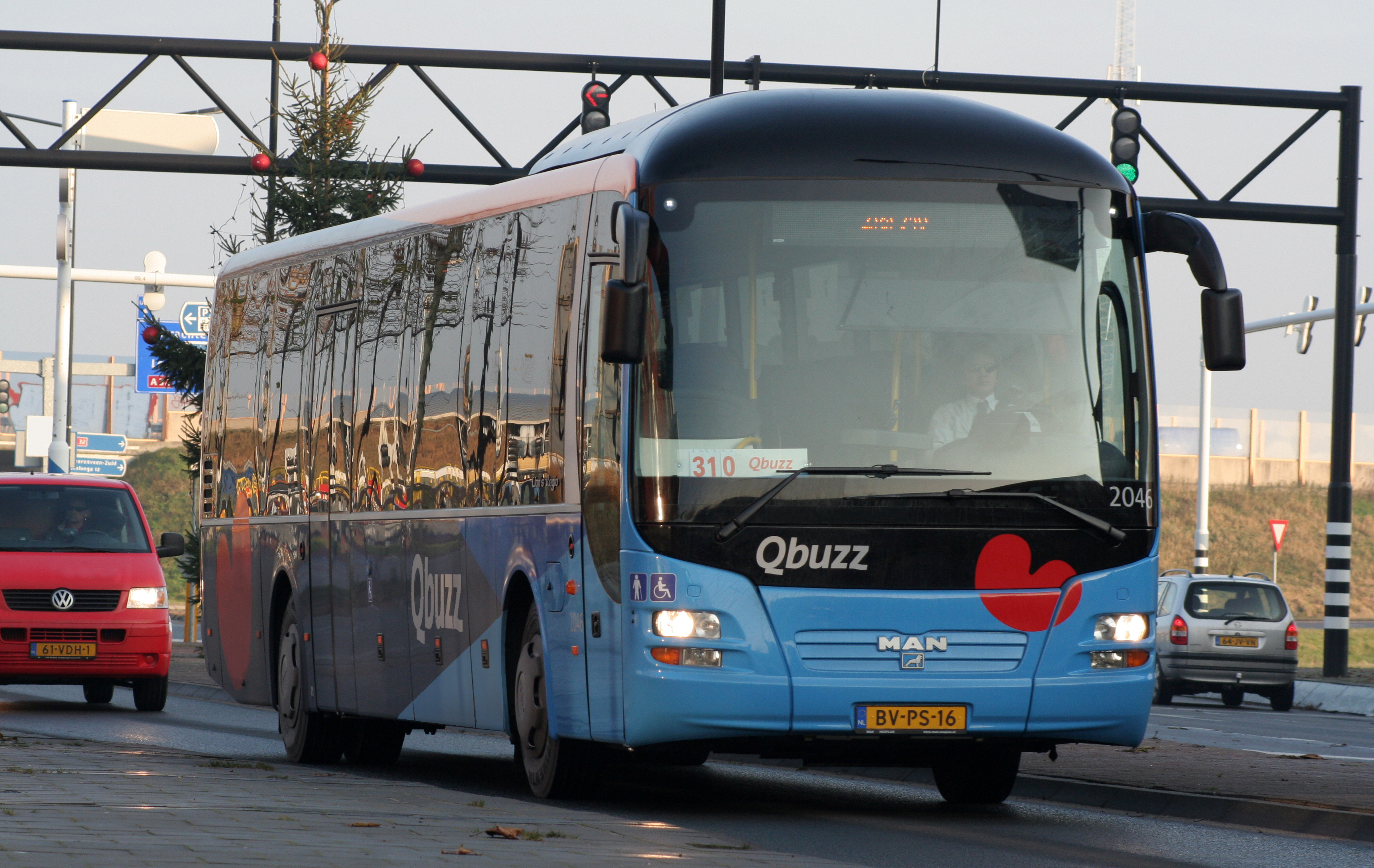 Qbuzz Qliner in Heerenveen, Netherlands. MAN Lion's Regio bus (BV-PS-16, #2046), built in 2008.